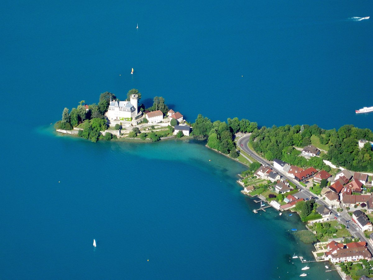 Chateau de Duingt (or Ruphy)in Lake Annecy from the air (paraglider)